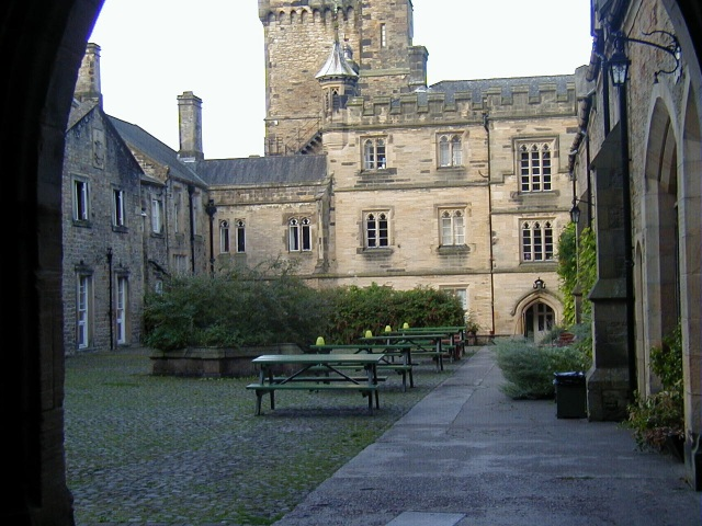 Photograph